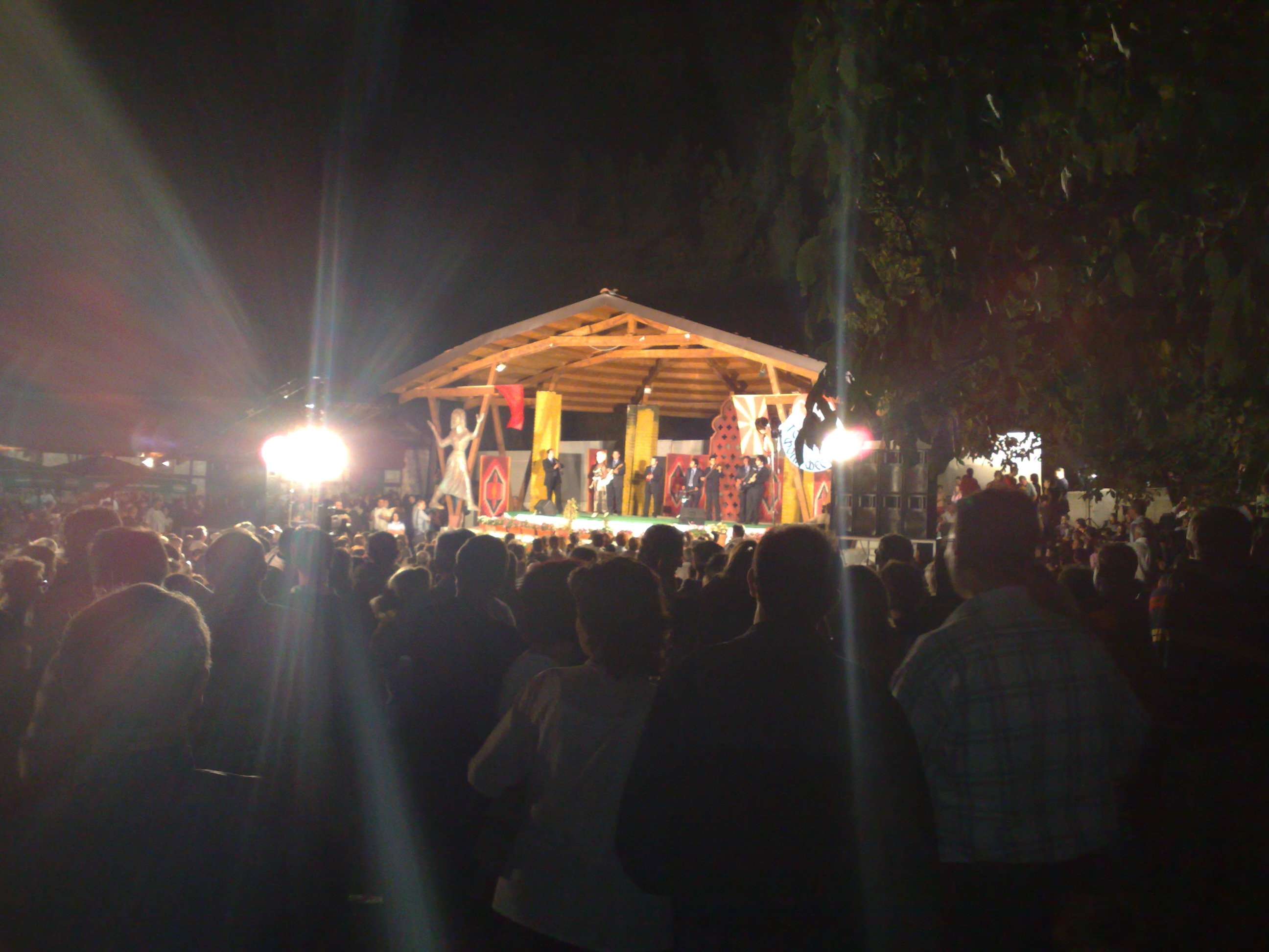 Tetovo folk fest in Lešok, Macedonia